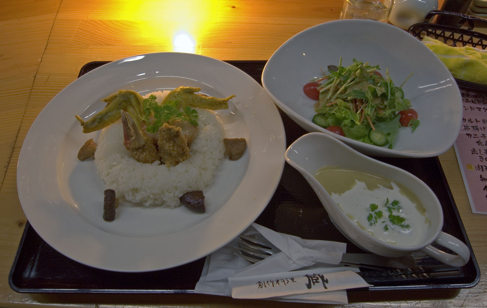 Okhotsk Mombetsu White Curry, Mombetsu, Hokkaido, Japan